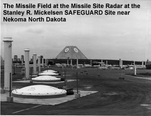 SAFEGUARD racket field